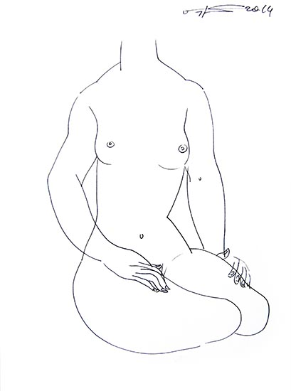 "Nude model". 2014 Black pen on paper. A4